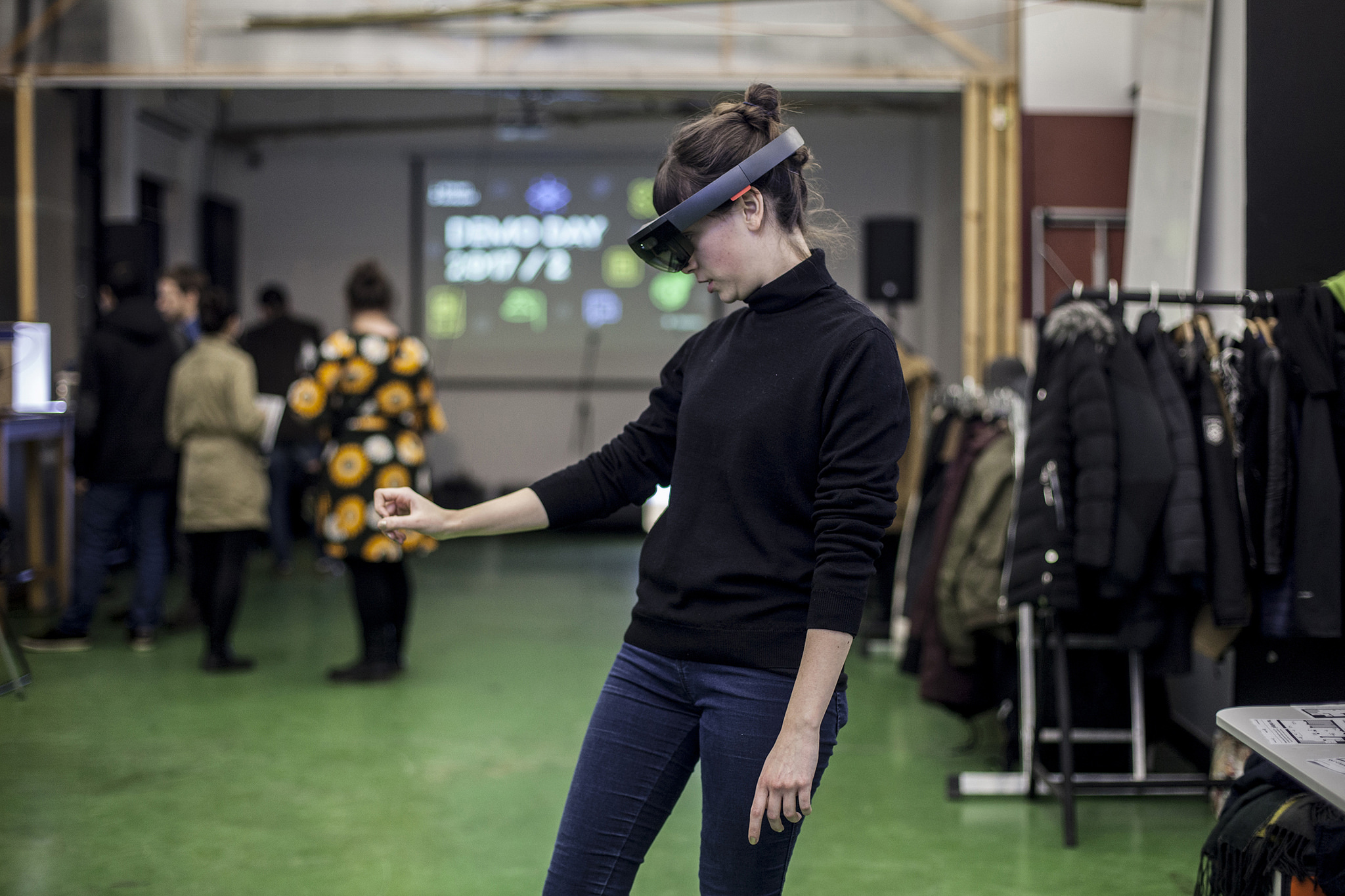 © Neogrády-Kiss Barnabás